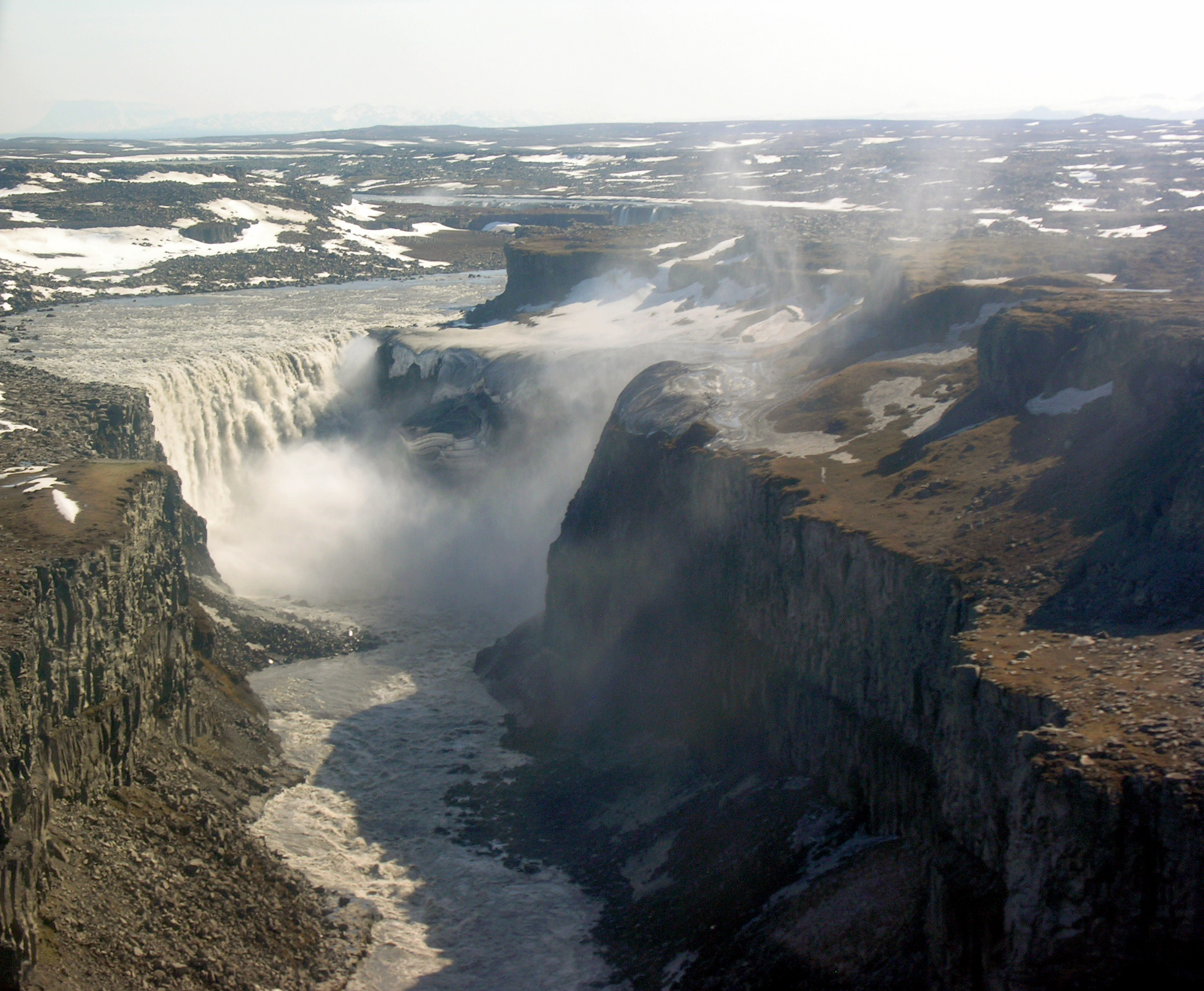 Aerial View of Dettifoss